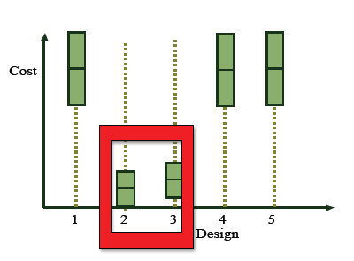 This file is used to describe how OCBA works. Based of a few simulation runs, one can see that alternative 2 and 3 have the lowest costs and should be cosidered. The article that this picture will be used in will suggest to run further simulation only on alternative 2 and 3 in order to same processing time.